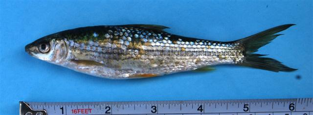 Cirrhinus reba, Hirakud Reservoir, Mahanadi, Orissa, India